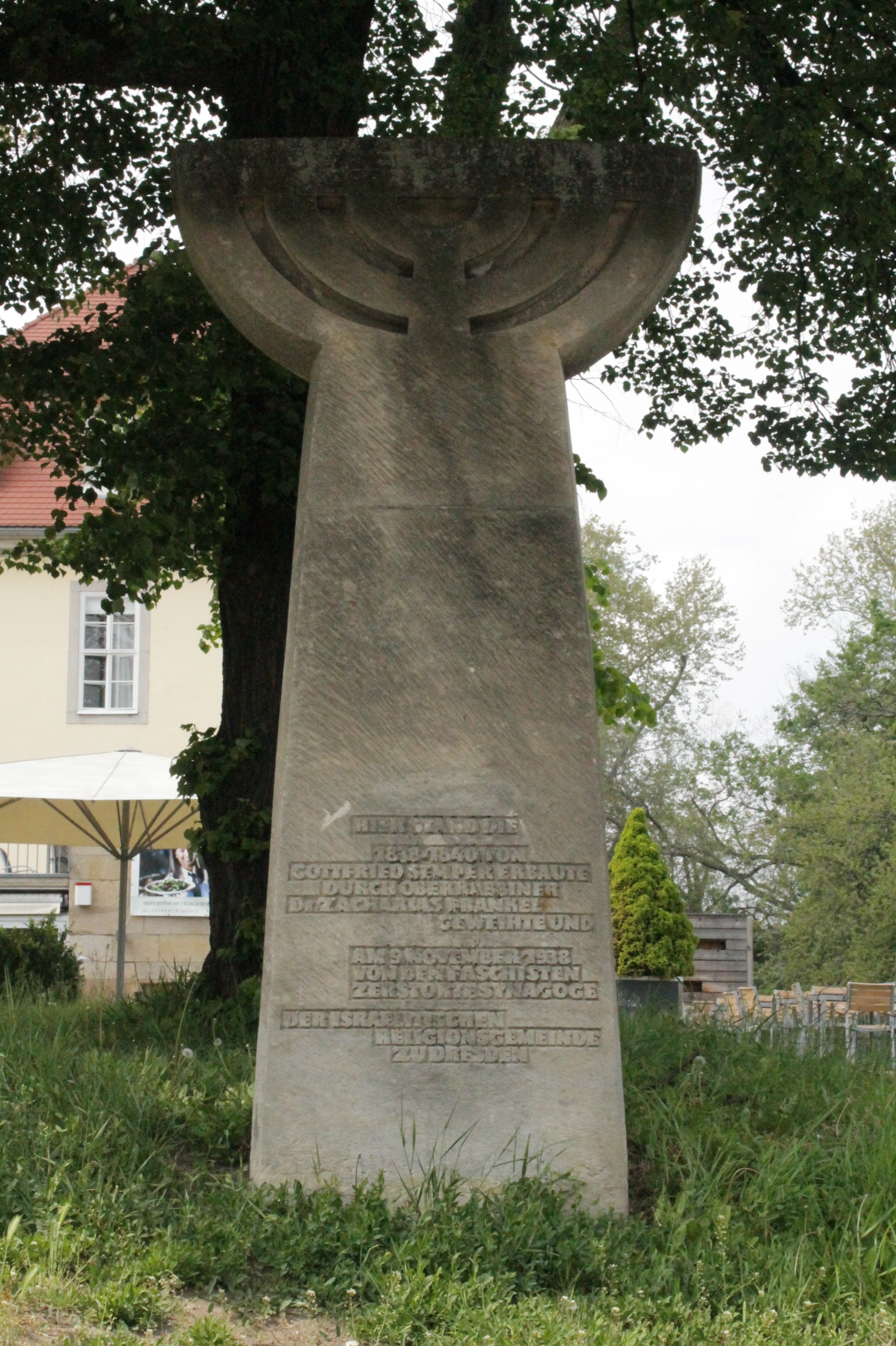 Monument to the destruction on Kristallnacht of the Semper Synagogue, Dresden